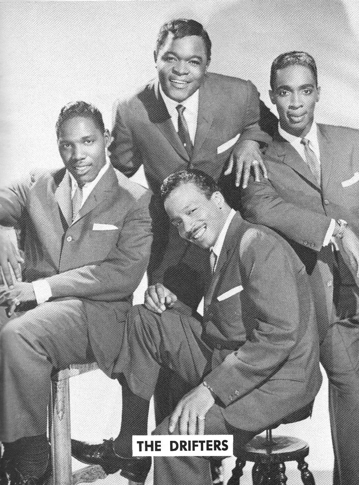 Photo of the vocal group The Drifters from a program for noted New York disc jockey Murray the K's Holiday Revue of 1961. He was well-known for hosting live music shows in the New York City area in the 1950s and 1960s. The program is for one of his 1961 shows.